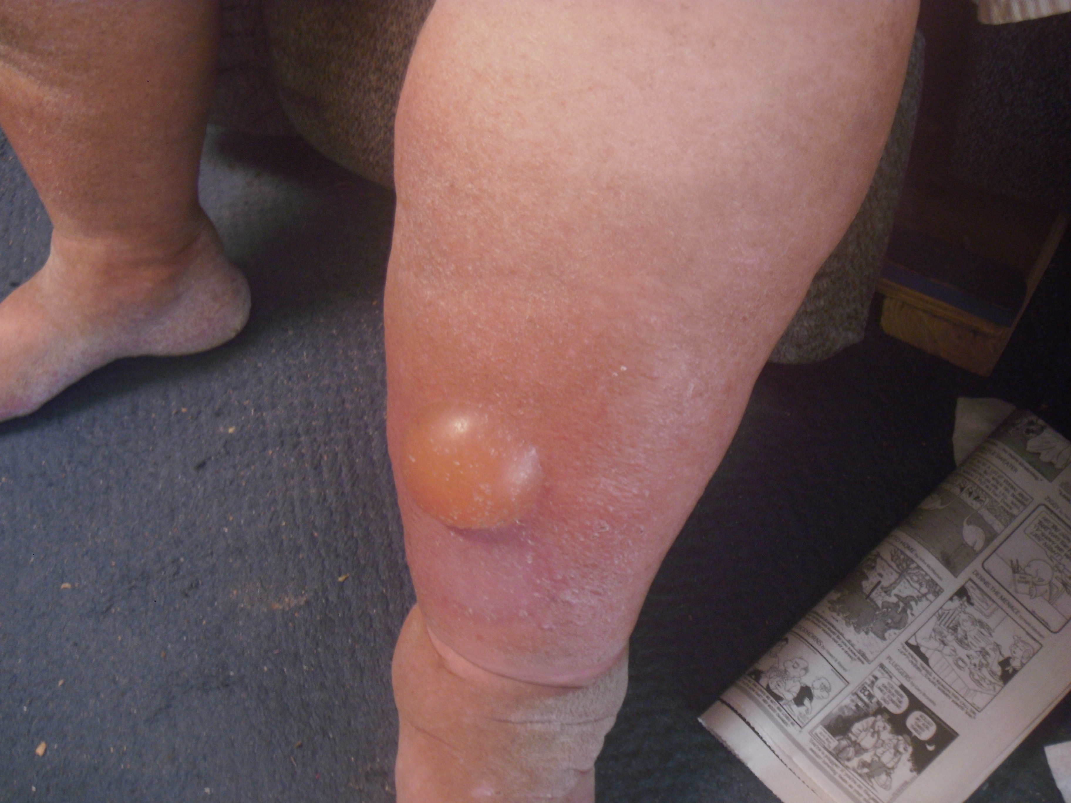 leg edema water bubble caused by congestive heart failure . Edema en las piernas causada por debilidad de el corazon